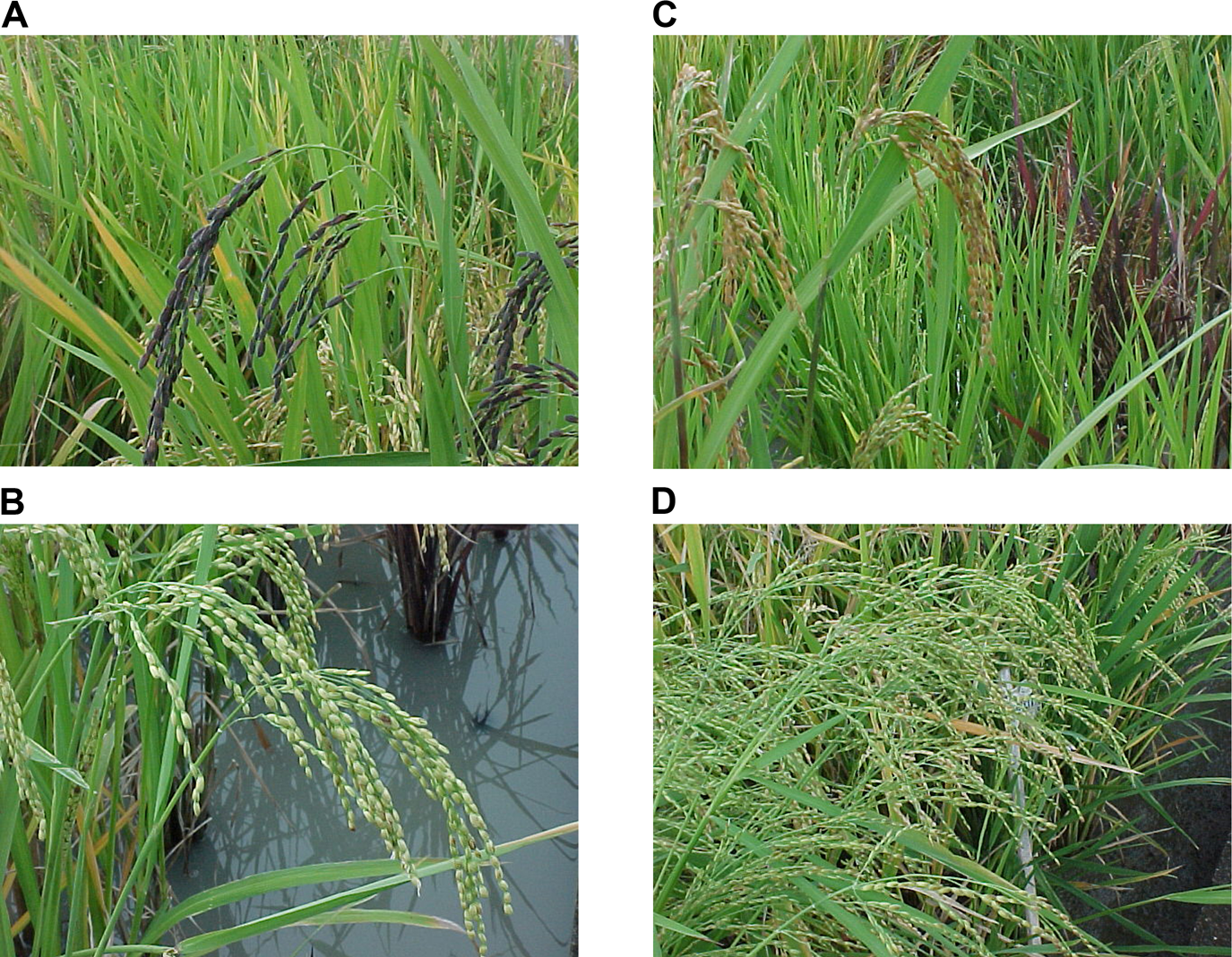 The Diversity of Ancestral Rices. (A) Long, thin-grained rice with purple hull. (B) Round-grained rice with white hull. (C) Panicles of golden-hulled rice (foreground) and purple-leafed rice (background). (D) Tall, weedy rice with pale leaves and silver hulls.